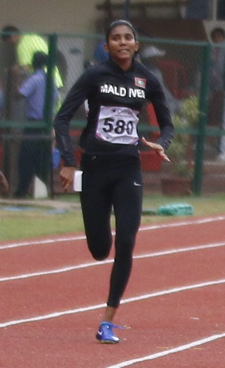 Athletes during 22nd Asian Athletics Championships in Bhubaneswar.